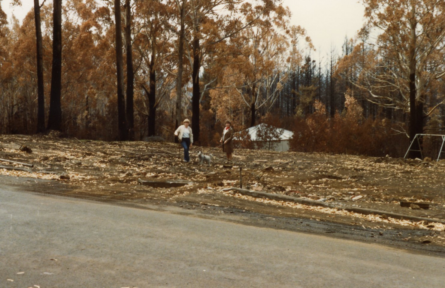 This area was where the restaurant stood, being constructed of wood & tin it was destroyed completely.